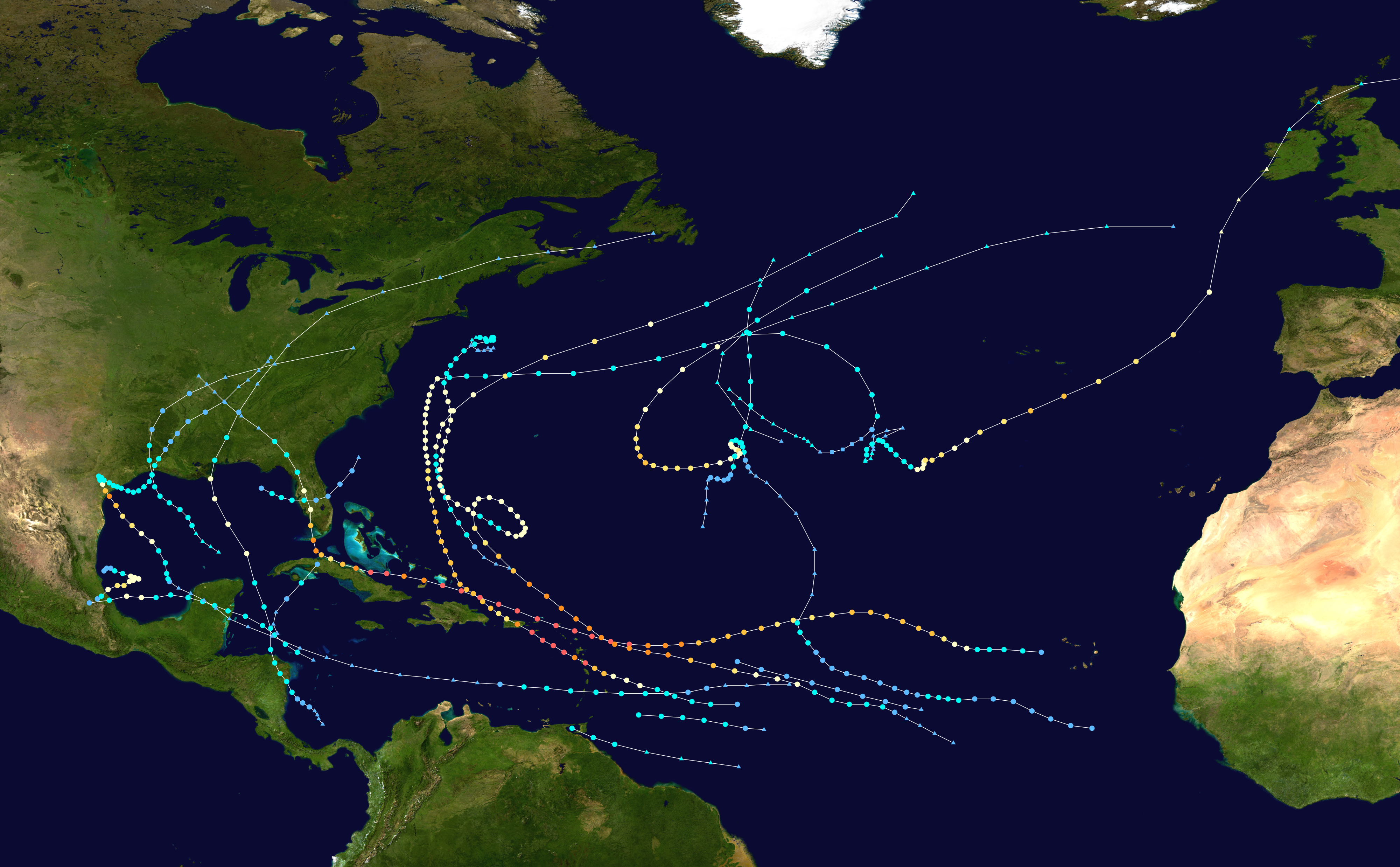 This map shows the tracks of all tropical cyclones in the 2017 Atlantic hurricane season. The points show the location of each storm at 6-hour intervals. The colour represents the storm's maximum sustained wind speeds as classified in the Saffir-Simpson Hurricane Scale (see below), and the shape of the data points represent the type of the storm. Saffir–Simpson scale Tropical depression≤38 mph≤62 km/h Category 3111–129 mph178–208 km/h Tropical storm39–73 mph63–118 km/h Category 4130–156 mph209–251 km/h Category 174–95 mph119–153 km/h Category 5≥157 mph≥252 km/h Category 296–110 mph154–177 km/h Unknown Storm type Tropical cyclone Subtropical cyclone Extratropical cyclone / Remnant low / Tropical disturbance / Monsoon depression